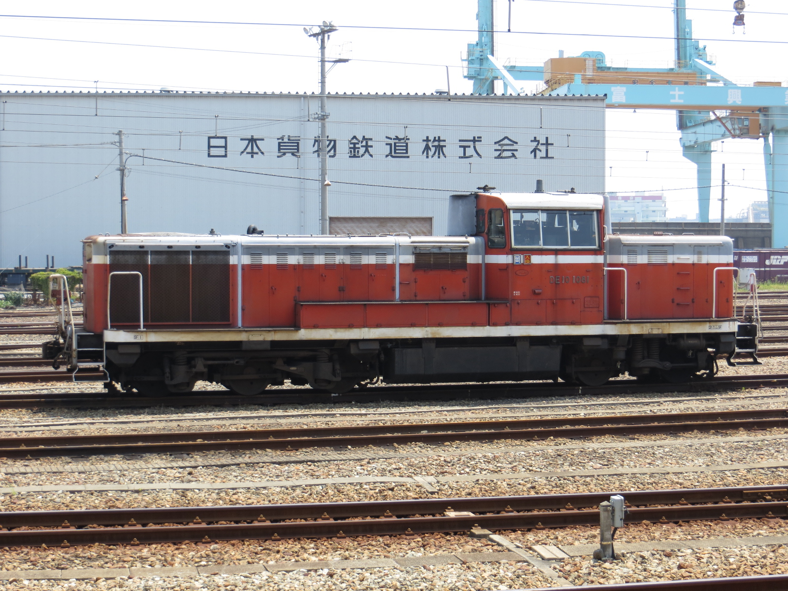 JR Freight Class DE10 #DE10-1081 in Ajikawaguchi Station.